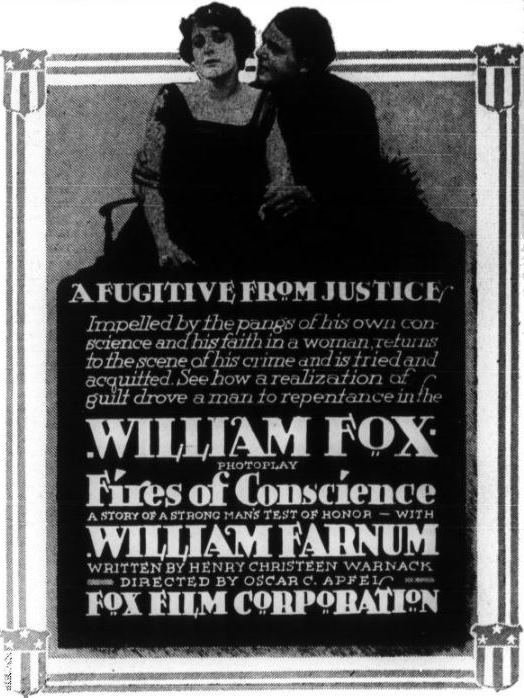 Advertisement for the American drama film The Fires of Conscience (1916) with Gladys Brockwell and William Farnum, on page 45 of the September 22, 1916 Variety.